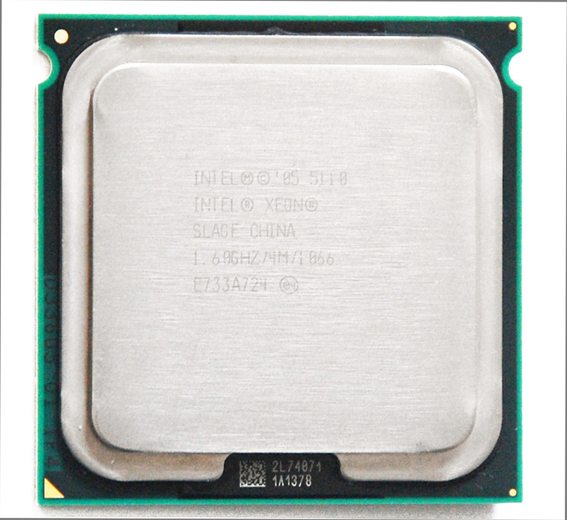 Intel® Xeon® Processor 5110 4M Cache, 1.60 GHz, 1066 MHz FSB